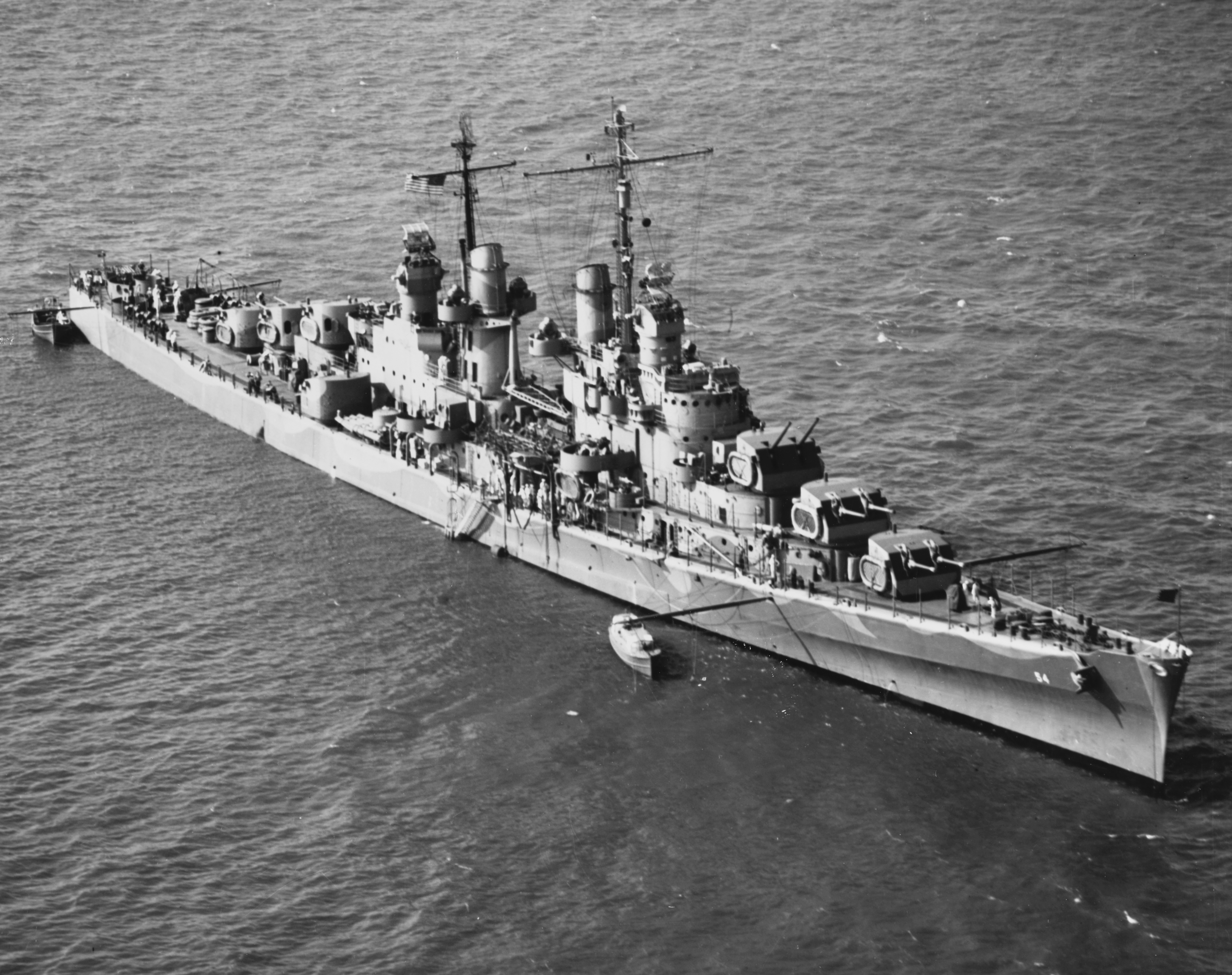 The U.S. Navy light cruiser USS San Juan (CL-54) off Norfolk, Virginia (USA), 3 June 1942.